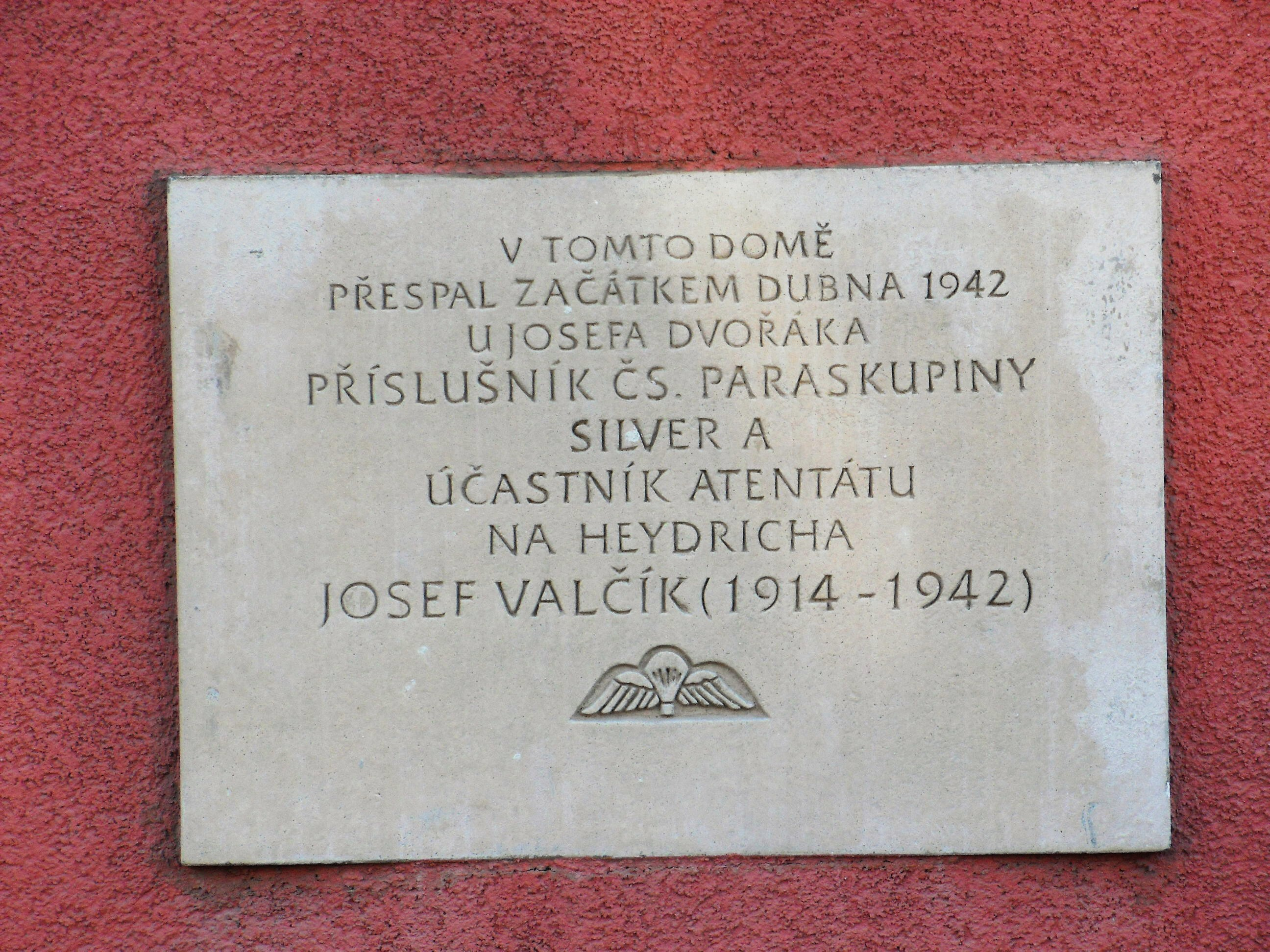 Memorial plaque of Josef Valčík, Brno, Czech Republic